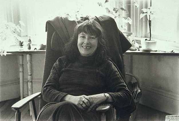 Portrait of Denise Levertov. Taken on Flagg St, Cambridge, MA.